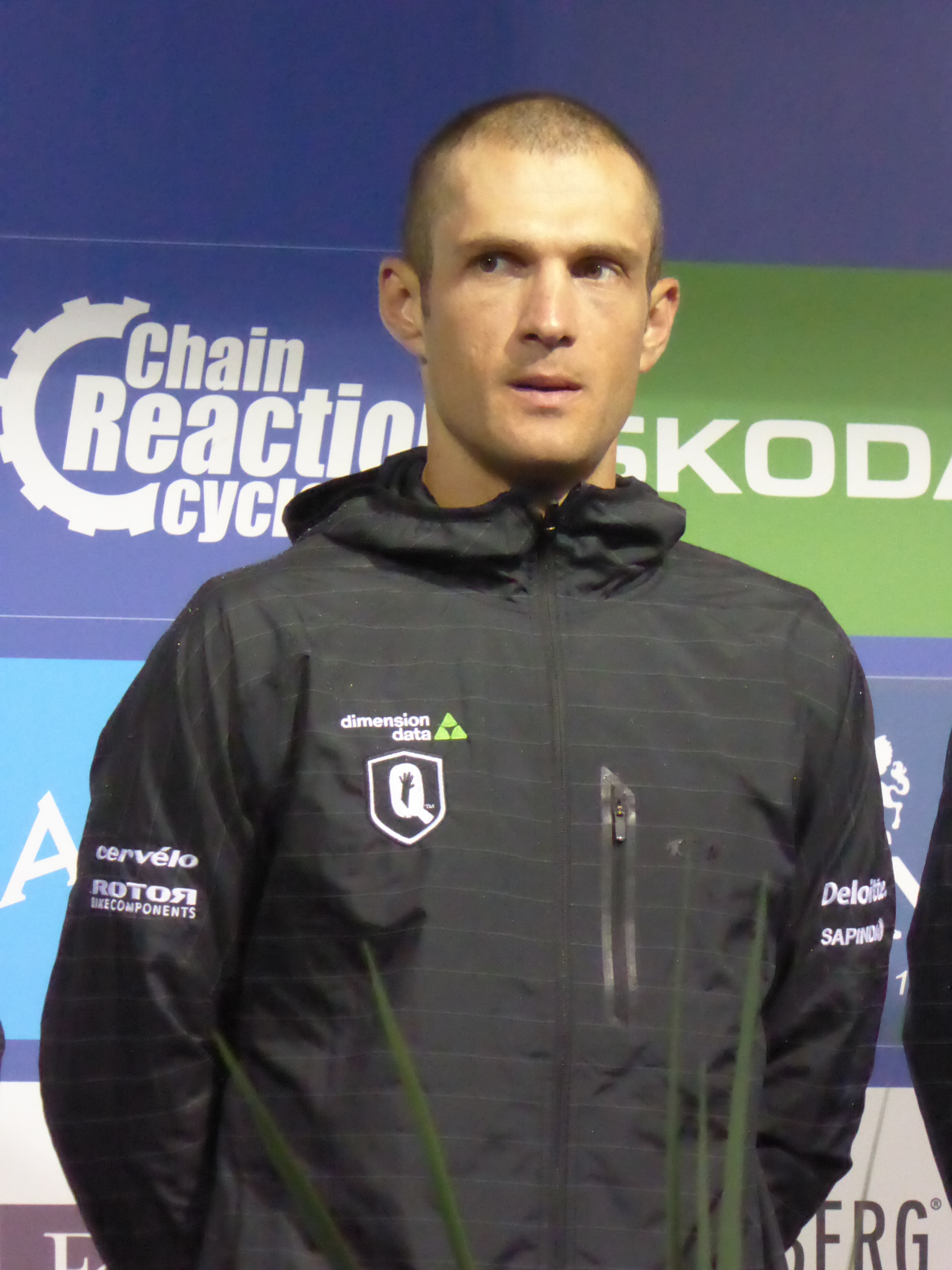 Jay Thomson (Team Dimension Data), pictured at the 2016 Tour of Britain team presentation in Glasgow on 3 September 2016.